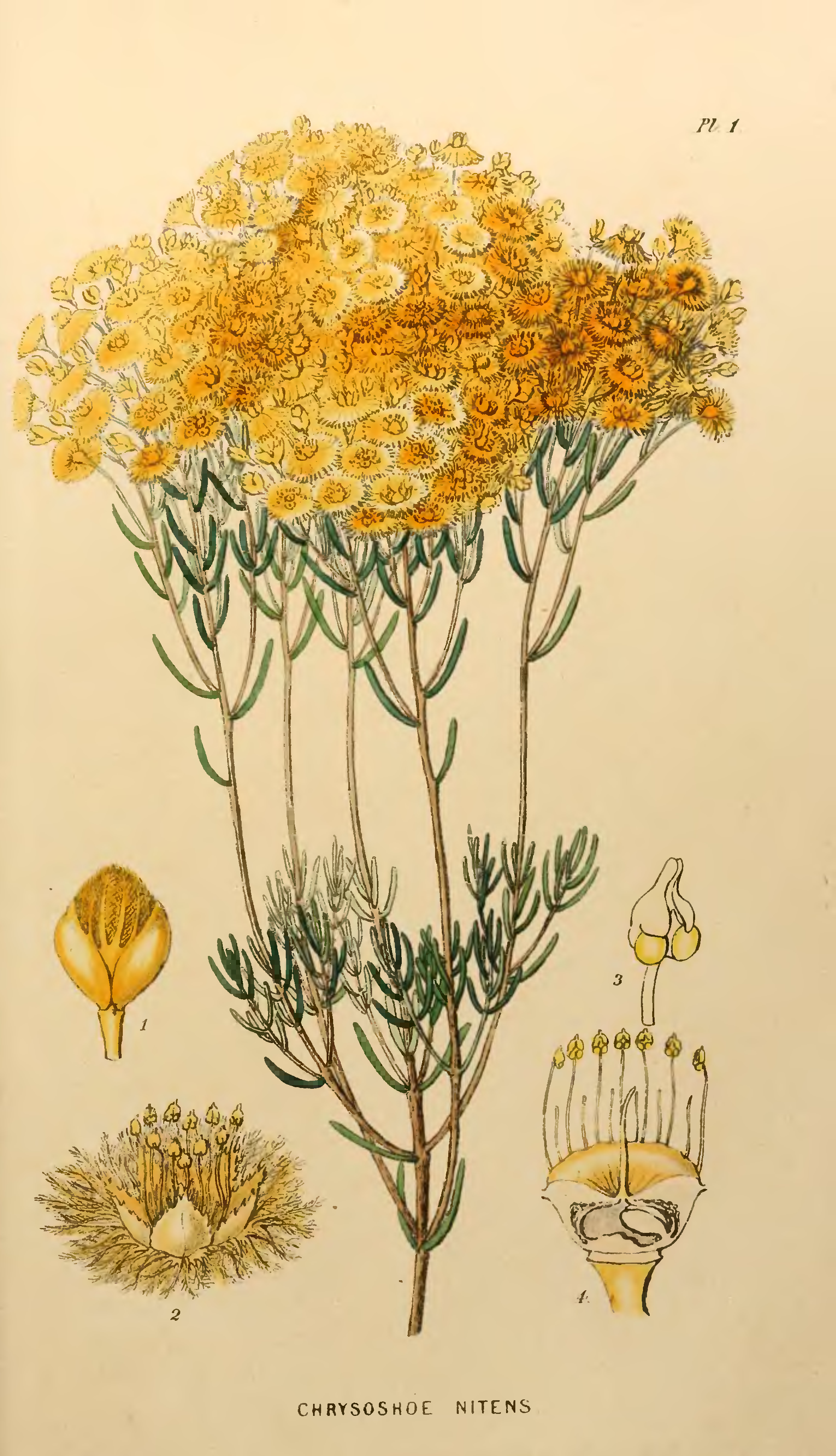 This is Plate 1 from A sketch of the vegetation of the Swan River Colony by John Lindley. The plant depicted is Chrysorhoe nitens (now Verticordia nitens). The caption says "CHRYSOSHOE" but this is a typo.